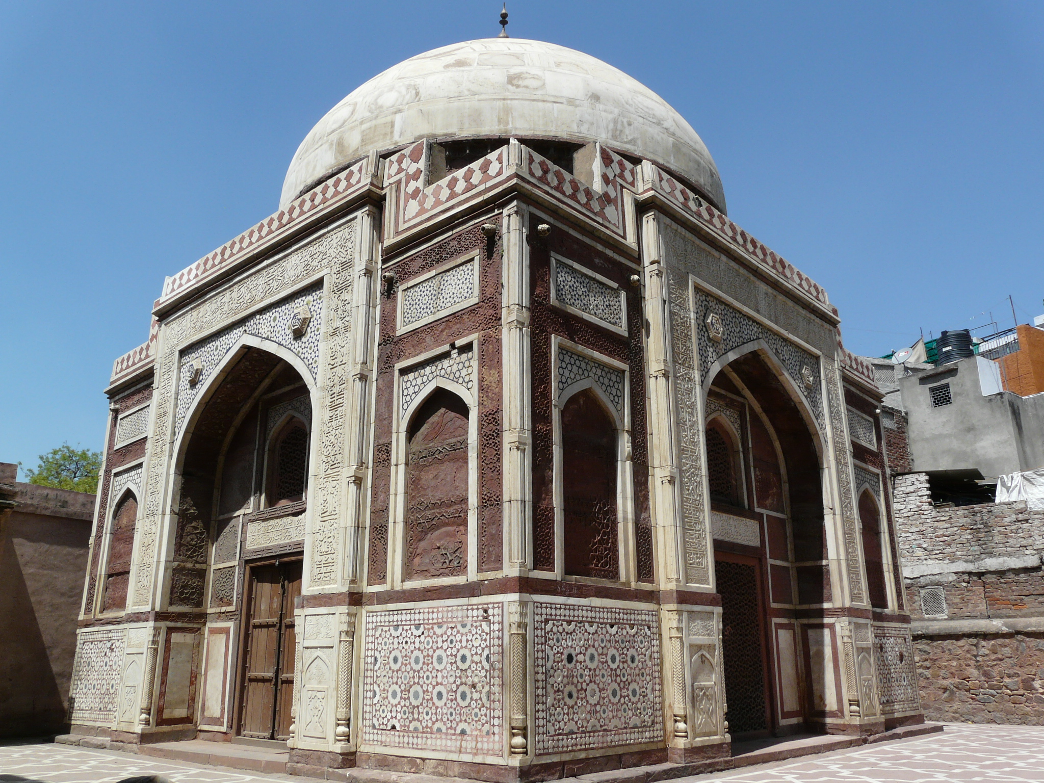 Atgha Khans tomb in Nizamuddin complex